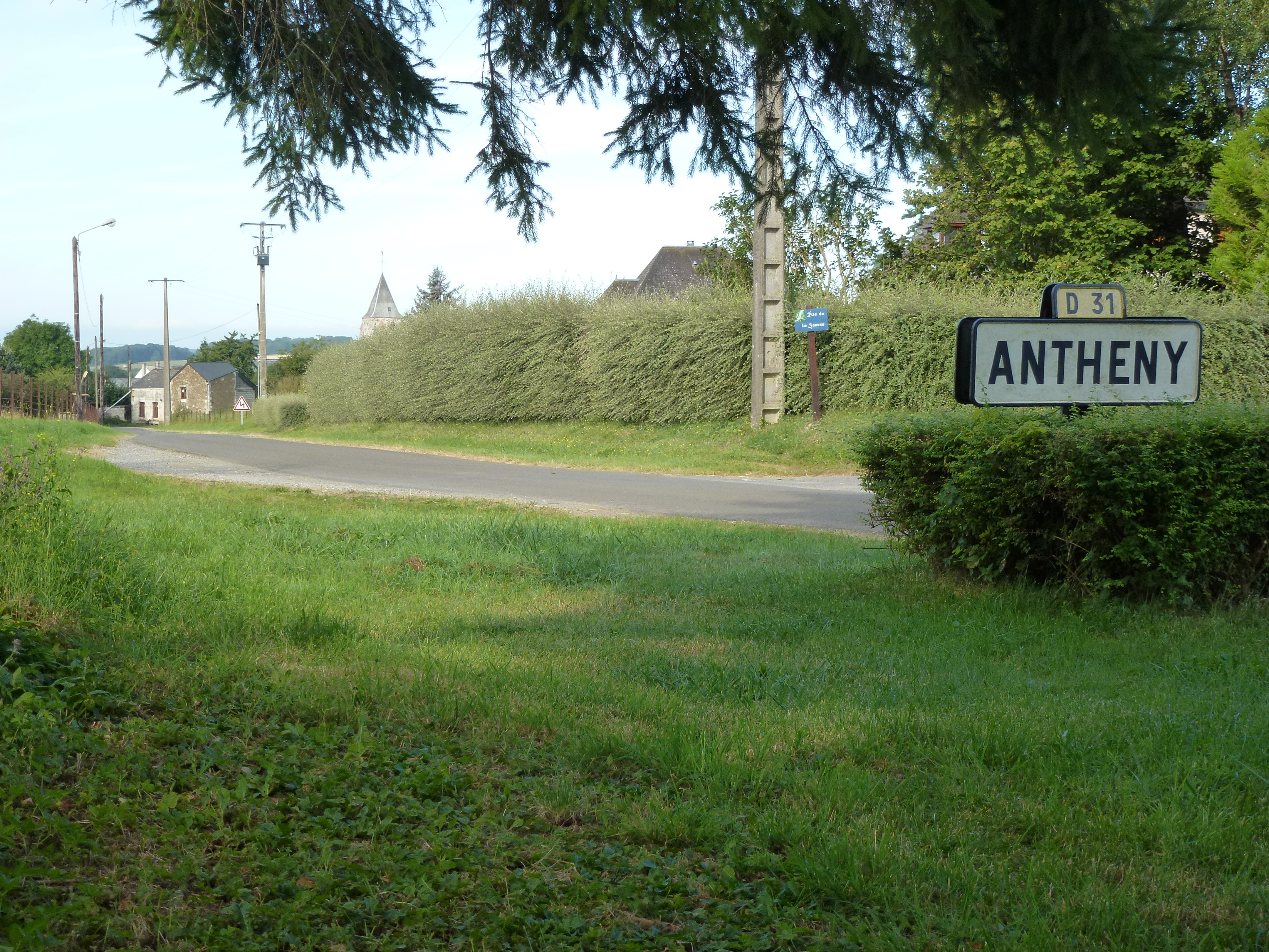 Antheny (Ardennes) city limit sign